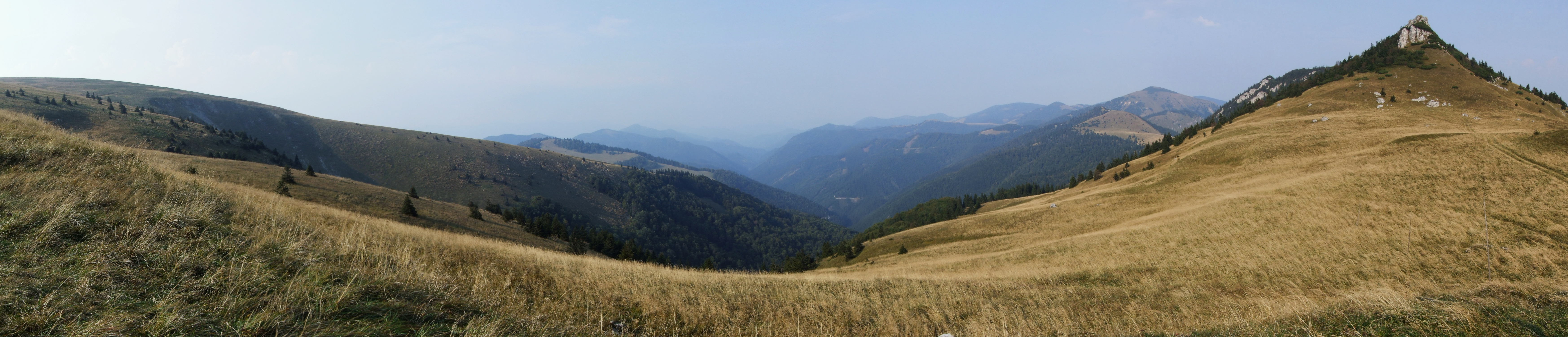 Ľubochnianska valley, Greater Fatra, Slovakia